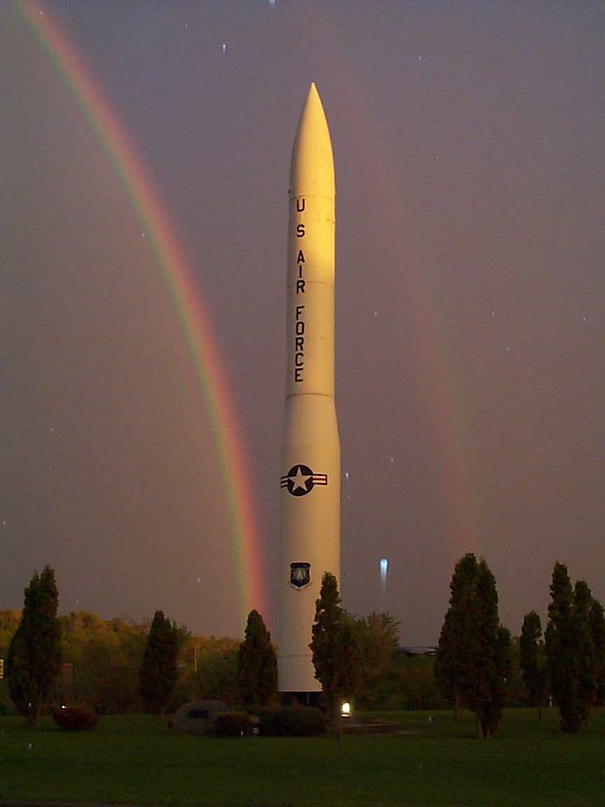 A missile with two rainbows behind it at the front entrance of Grand Forks Air Force Base in North Dakota.